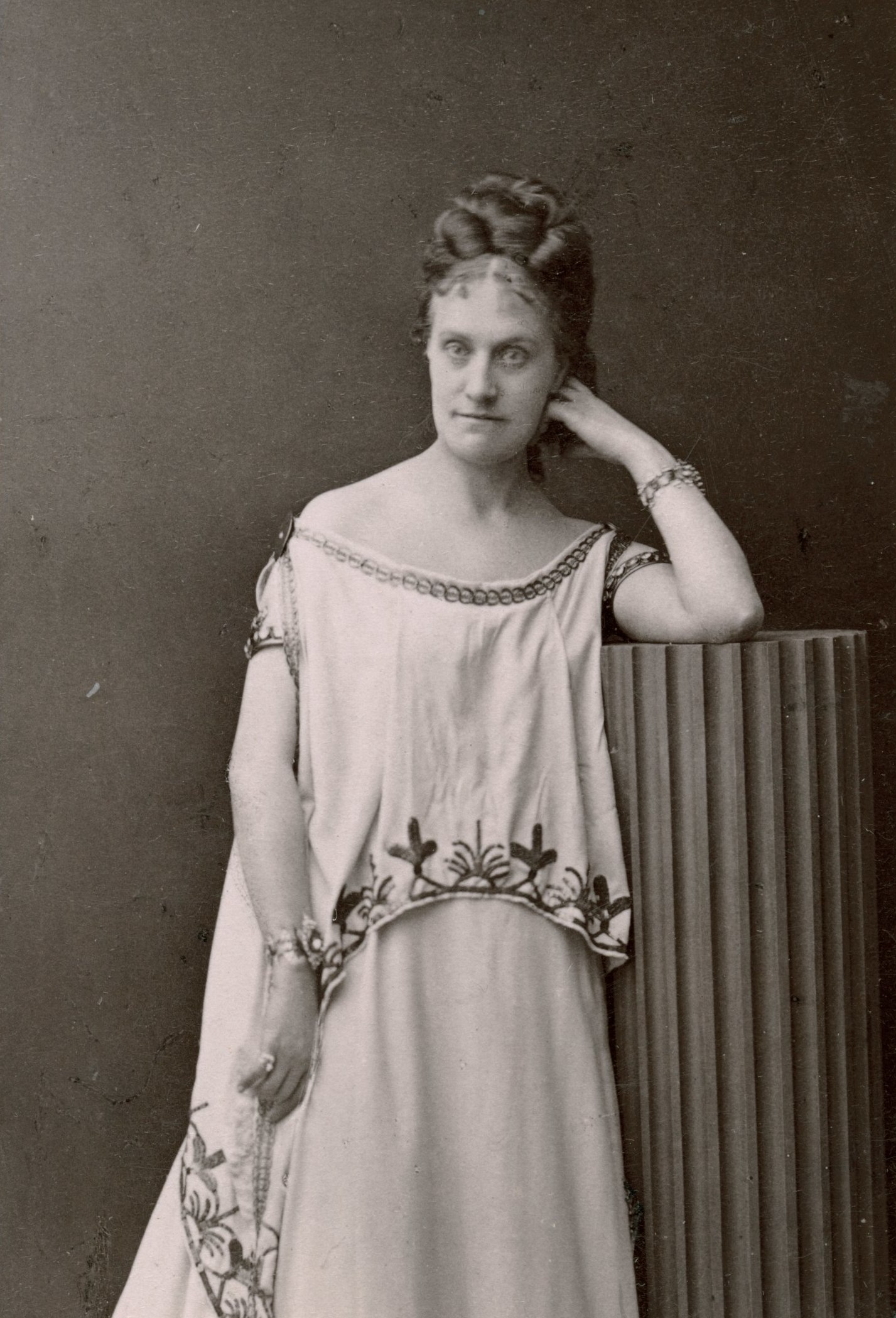 Louise Michaëli as Klytemnestra in the opera Ifigenia i Aulis at Kungliga Operan 1871.